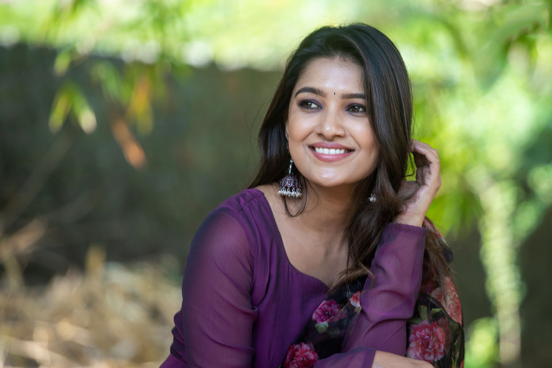 Vani Bhojan At The ‘Oh My Kadavule’ Press Meet